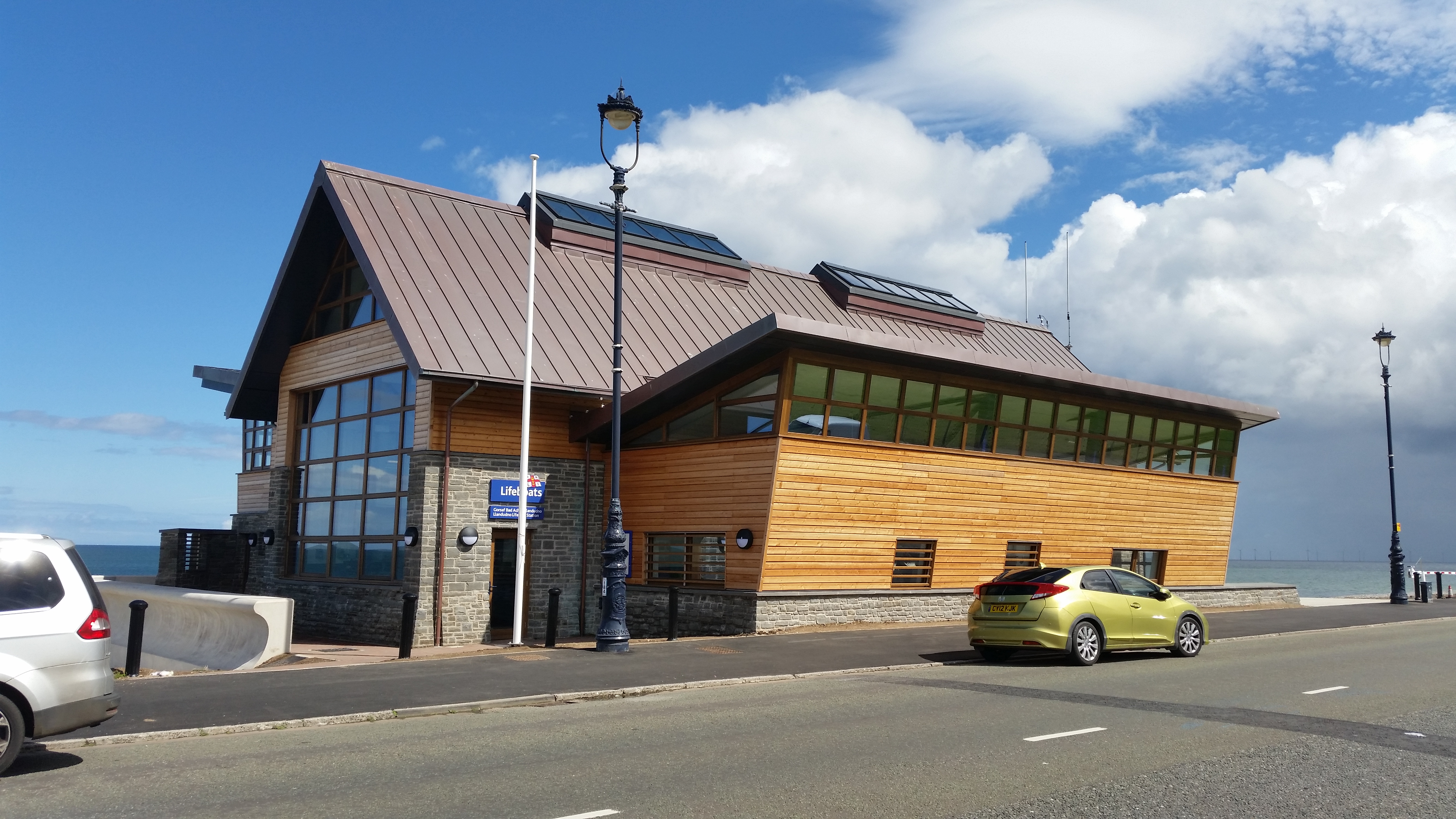 The new lifeboat station in Llandudno